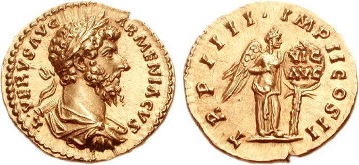 Lucius Verus. AD 161-169. AV Aureus (7.32 g, 6h). Rome mint. Struck AD 164. • L • VERVS AVG ARMENIACVS, laureate, draped, and cuirassed bust right; TR P IIII • IMP II COS II, Victory standing right, holding stylis in right hand, resting left hand on round shield inscribed VIC/PAR in two lines, set on palm tree. RIC III 525; MIR 18, 94-12/37; Calicó 2177 (same dies as illustration); BMCRE 297/295 (for obv./rev. type).